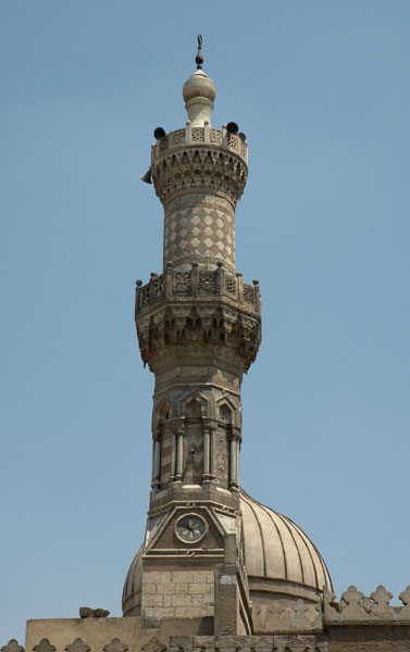 Al-Azhar Mosque. Cairo. Egypt